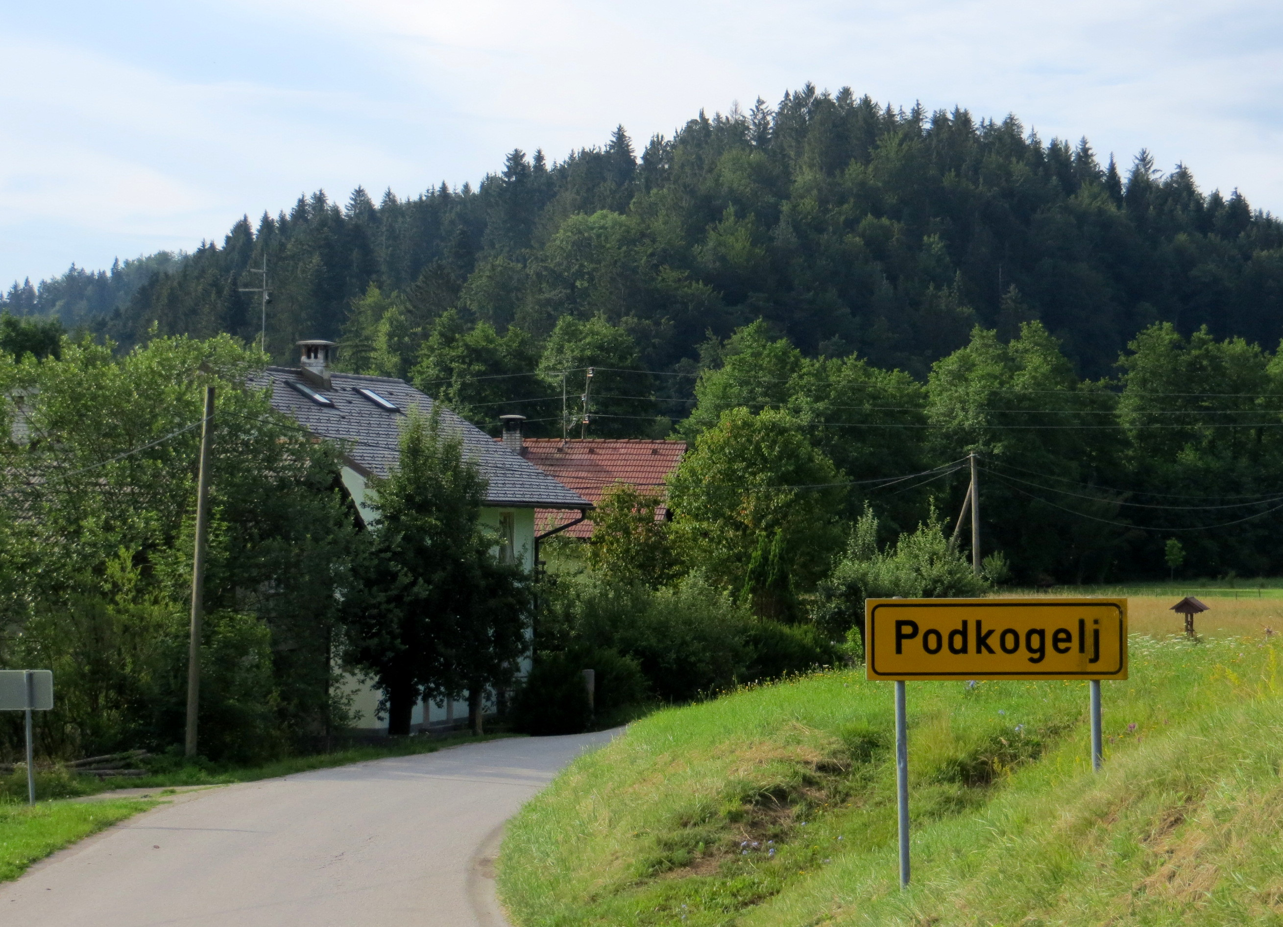 Podkogelj, Municipality of Velike Lašče, Slovenia